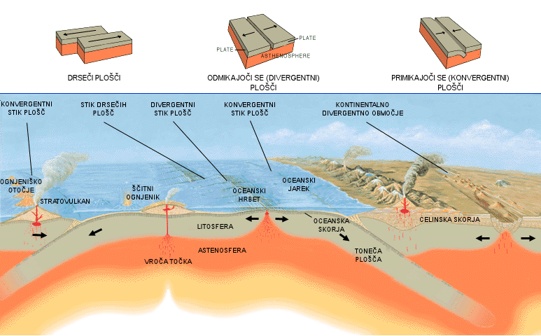 Diagram of plate tectonics and volcanic activities, with Slovenian captions.